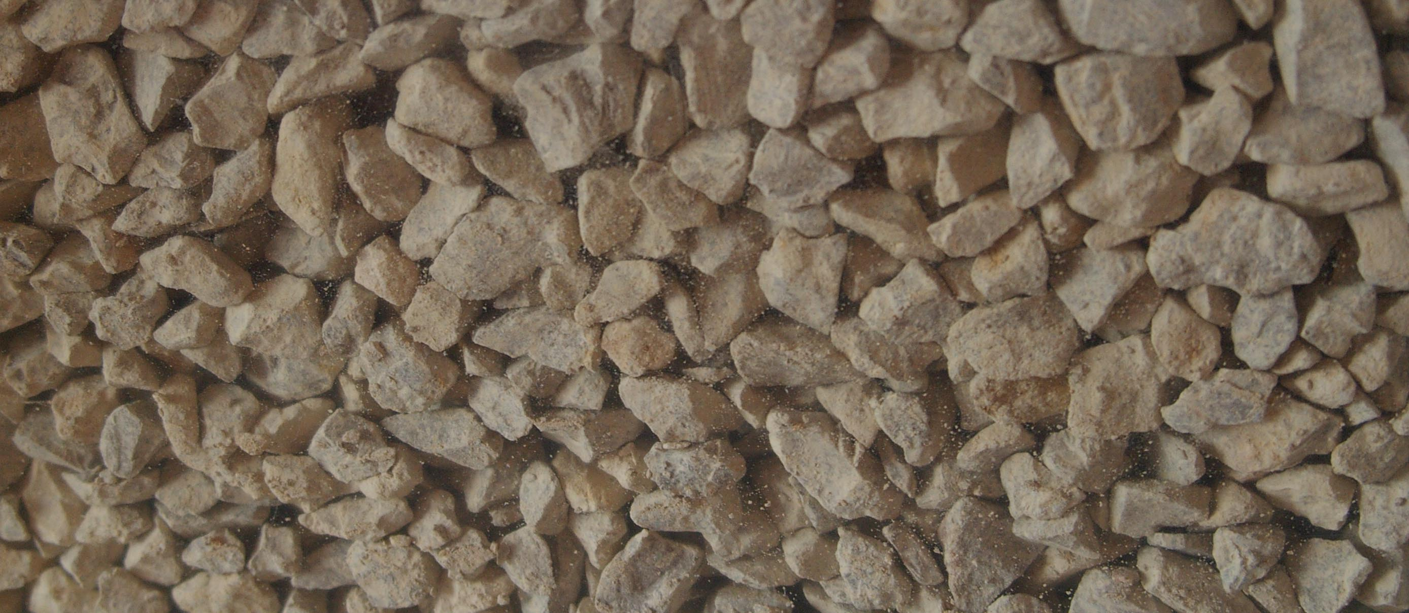 Aggregates